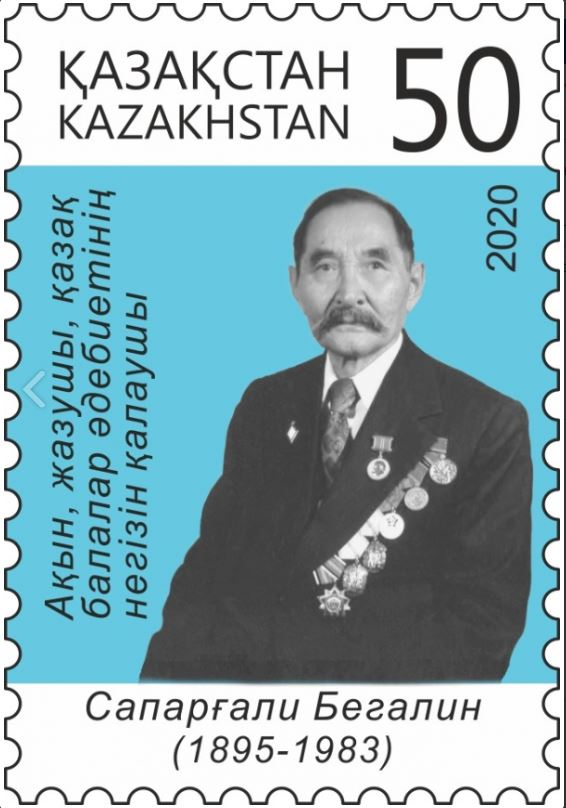 1226. 125th anniversary of S. Y. Begalin